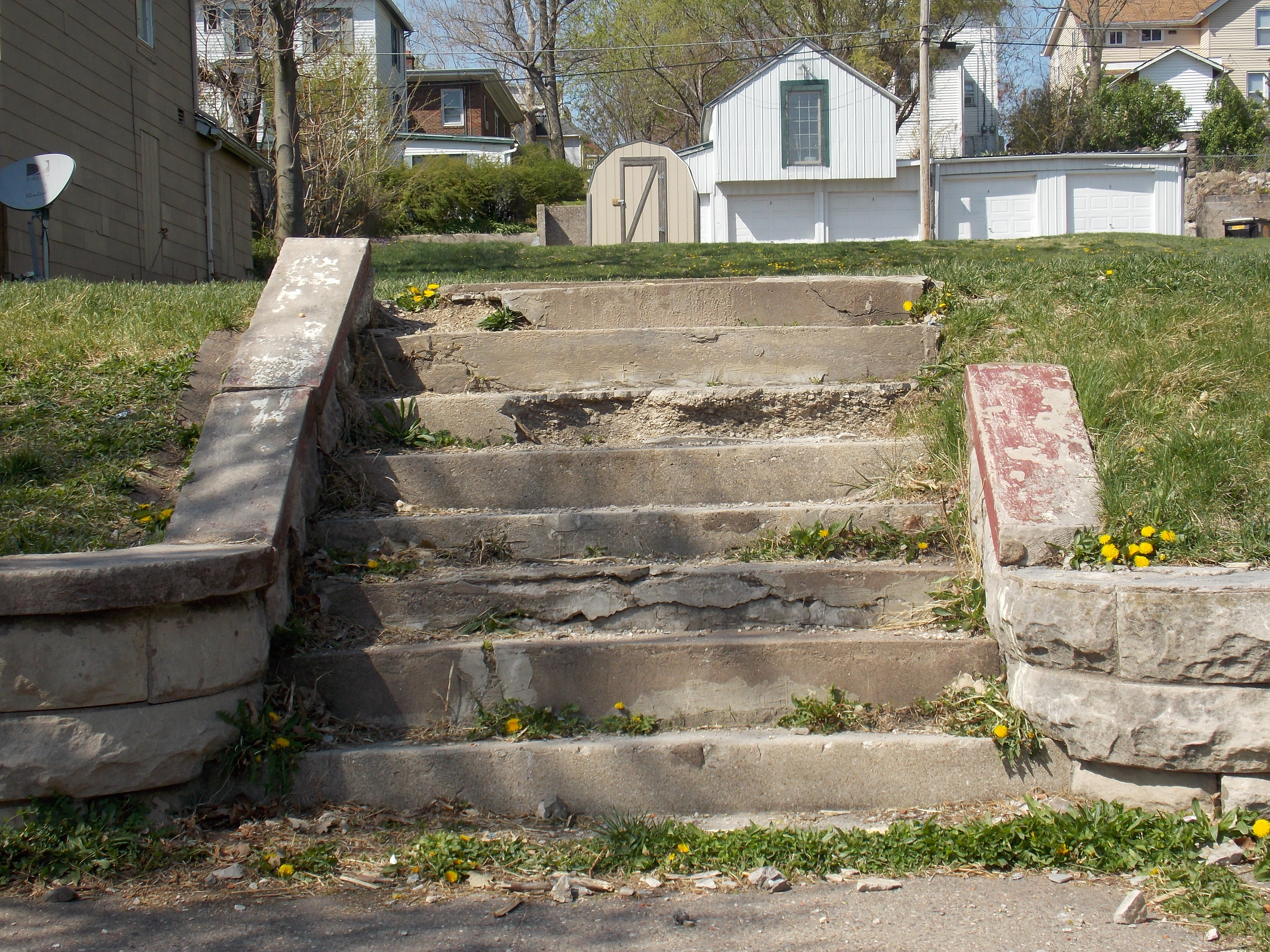 The steps that were in front of the John R. Boyle House, which has been torn down. The building was listed on the National Register of Historic Places.